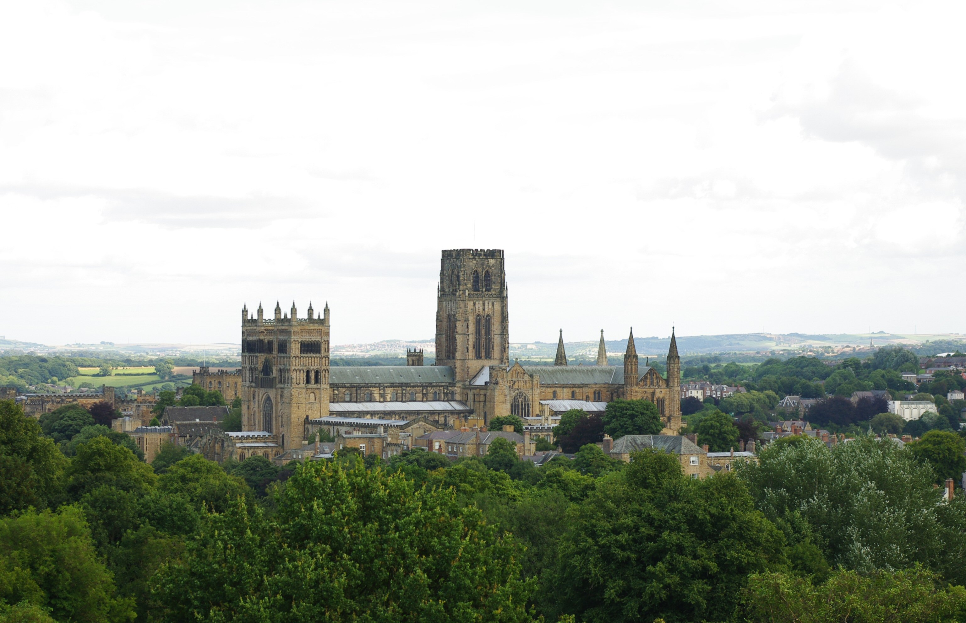 Durham Cathedral from the south